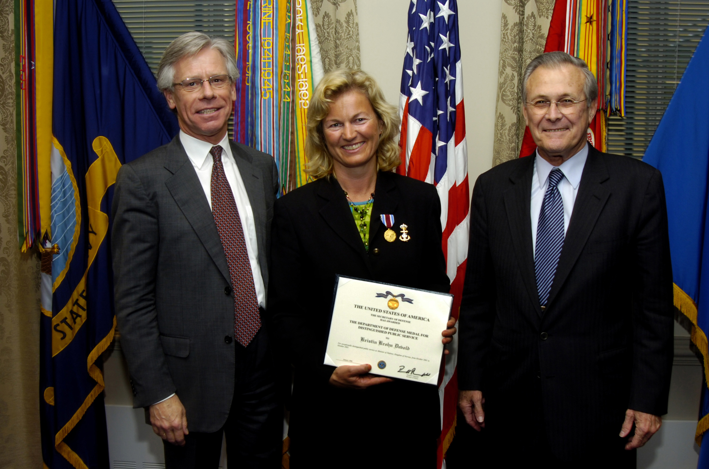 Secretary of Defense Donald H. Rumsfeld, right, and Ambassador of Norway Knut Vollebæk, left, present Kristin Devold, center, with the Department of Defense Medal for Distinguished Public Service Jan. 30, 2006, at the Pentagon. Devold, the former Norwegian minister of defense, was cited for her contributions as one of the United States' strongest partners and steadfast allies in the war on terror from the days immediately following the Sept. 11, 2001, terrorist attacks until the end of her tenure. DoD photo by Petty Officer 1st Class Chad J. McNeeley, U.S. Navy. (Released) Location: PENTAGON, ARLINGTON VA